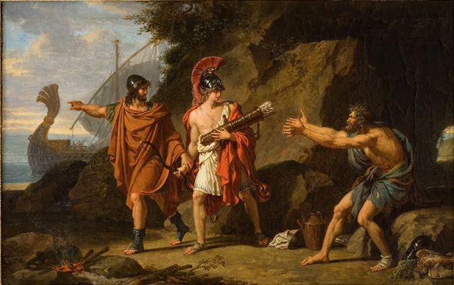 Ulysses and Neoptolemus Taking Hercules’ Arrows from Philoctetes